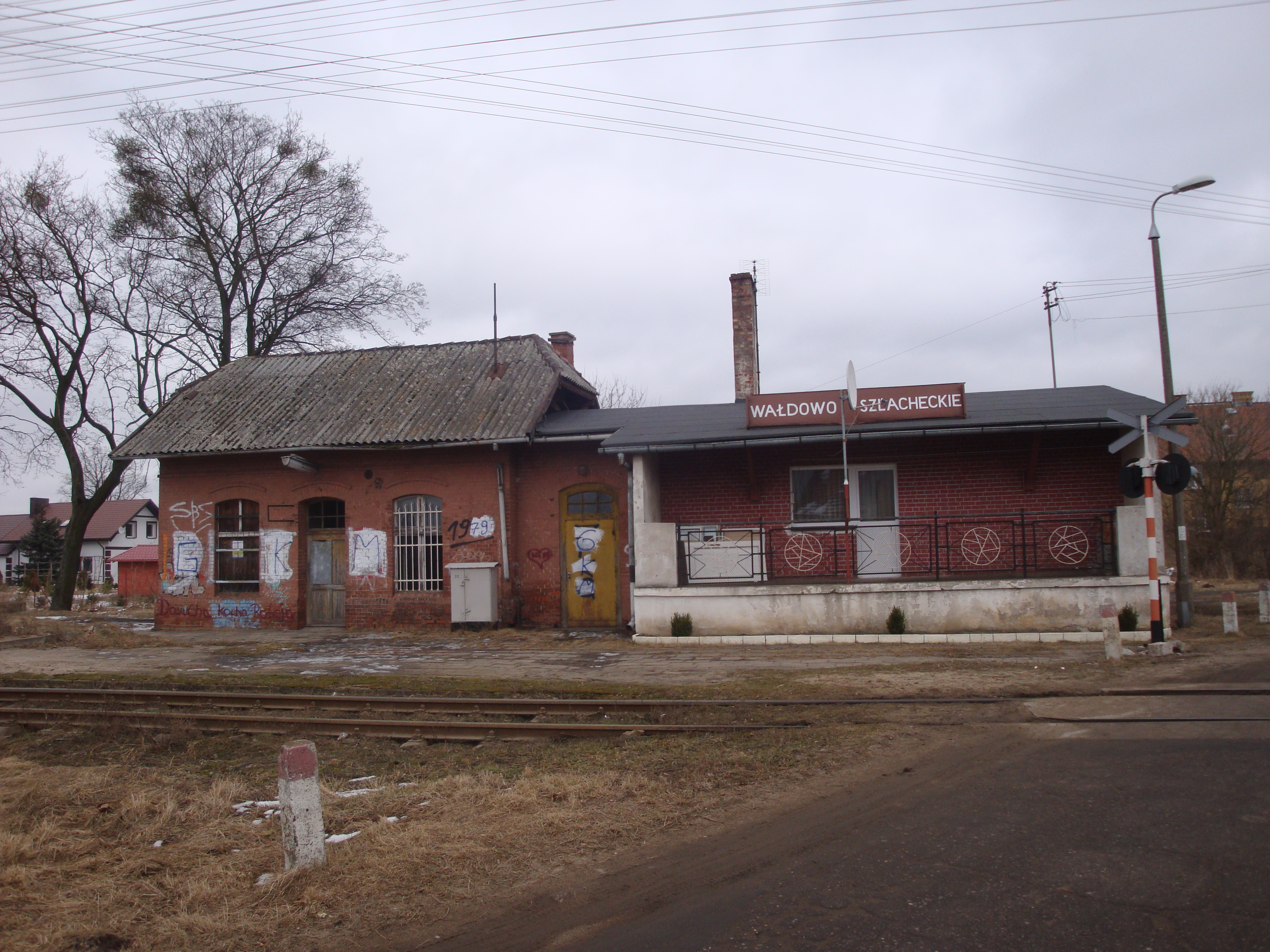 rain stop in Wałdowo Szlacheckie, Poland